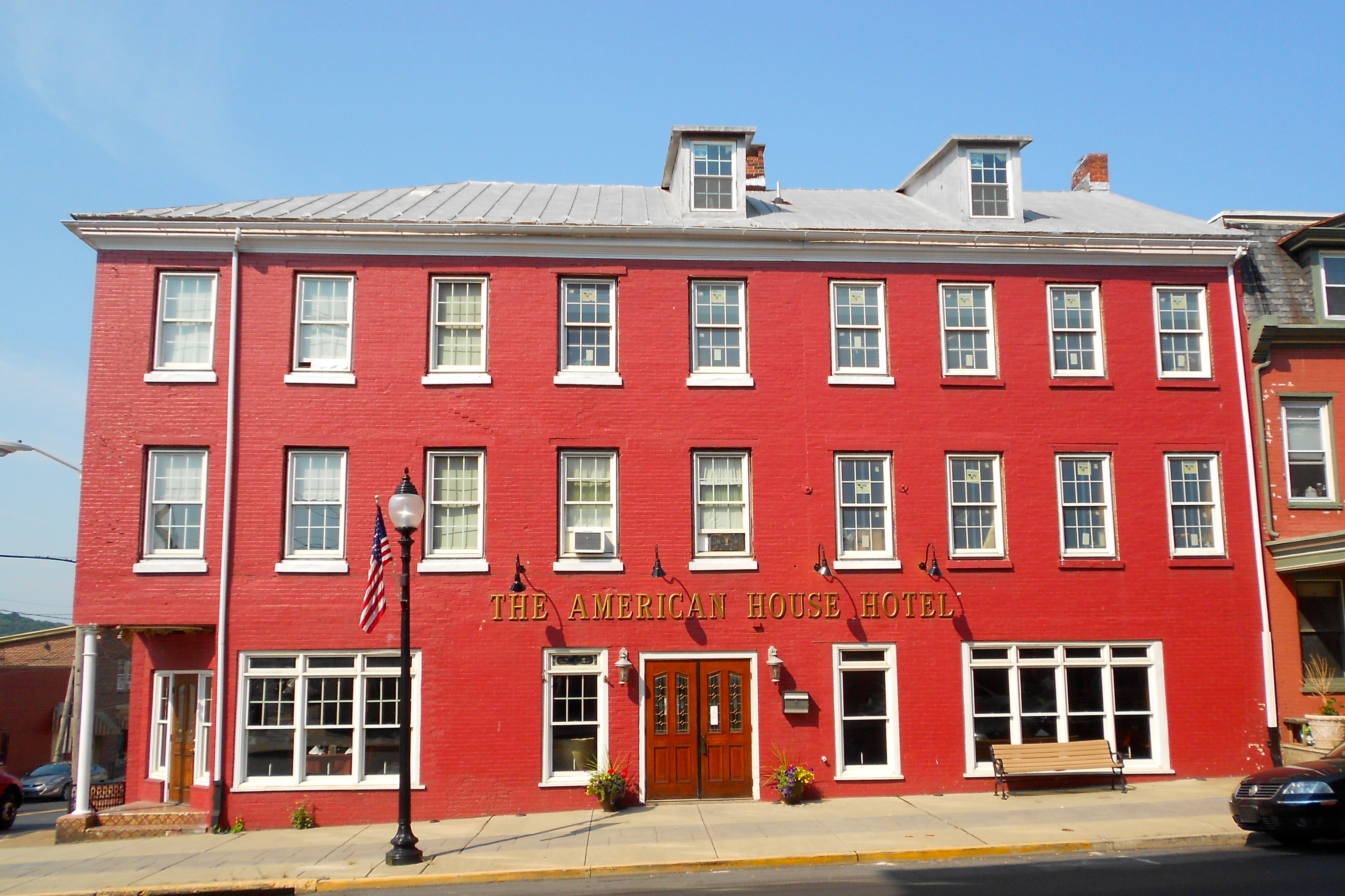 The American House hotel in the Hamburg Historic District, listed on the NRHP on June 28, 2010. The historic district is roughly bounded by Franklin, Windsor, Walnut and Second Sts., Quince, Primrose, Peach and Plum Alleys and Mill Creek in Hamburg, Berks County, Pennsylvania. The hotel is a bit north of the center of town (and of the historic district) at 4th and State Streets.